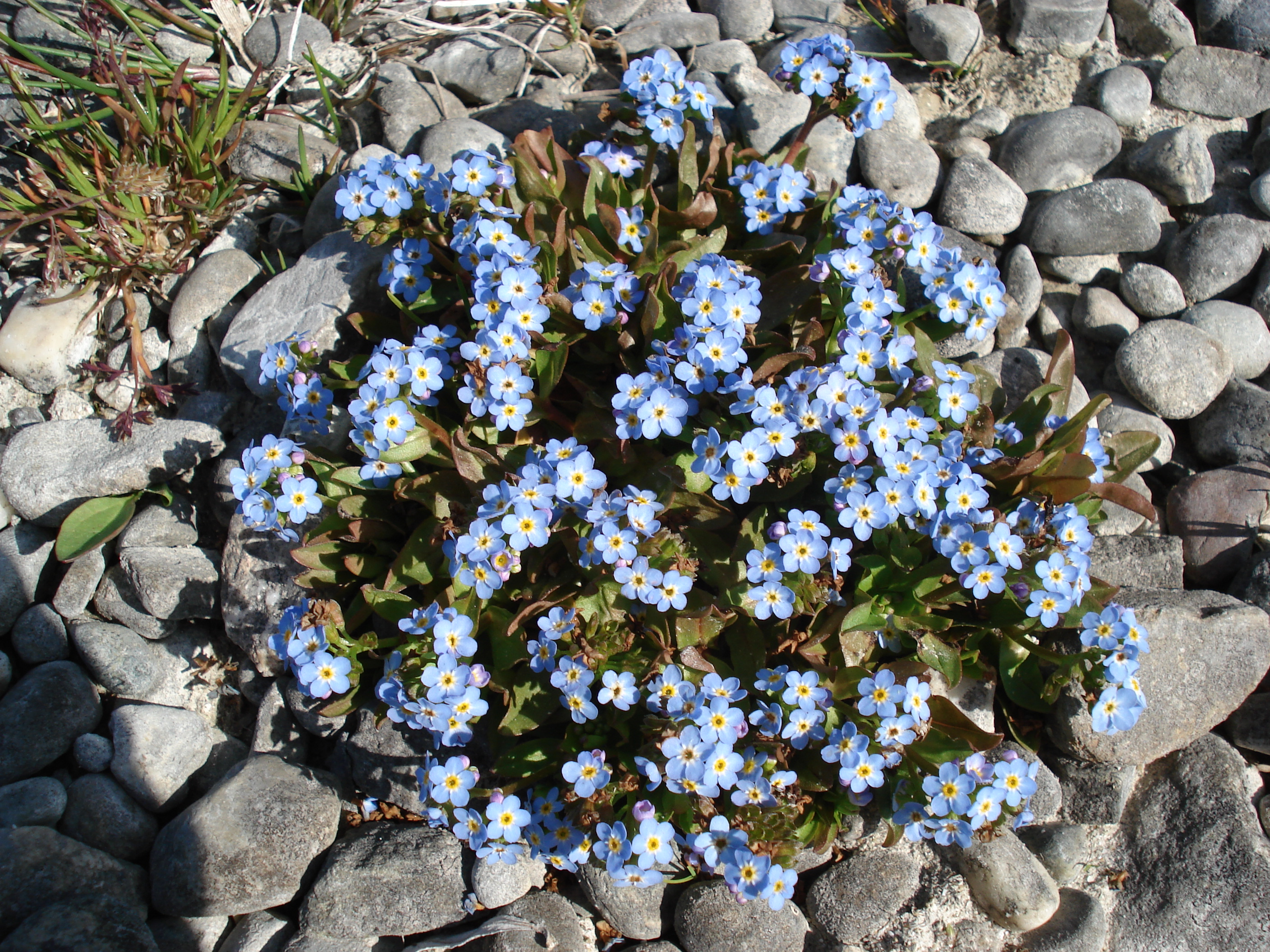 Myosotis rehsteineri at lakefront of Lake Constance near Allensbach